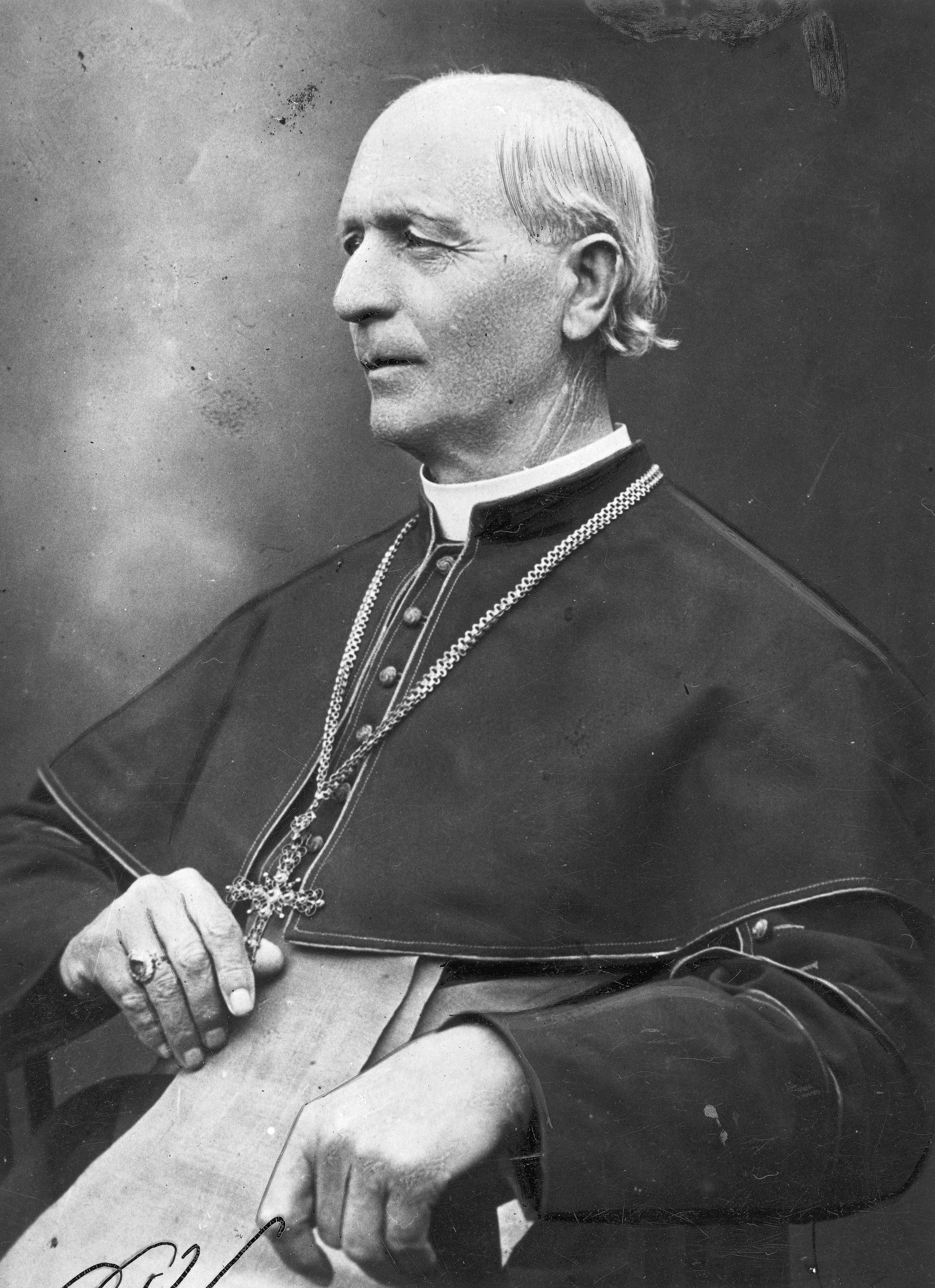 Portrait photography of Andrej Hlinka, Slovak Catholic priest and politician, leader of the Ludaks (Slovak People's Party) from 1913 to 1938.